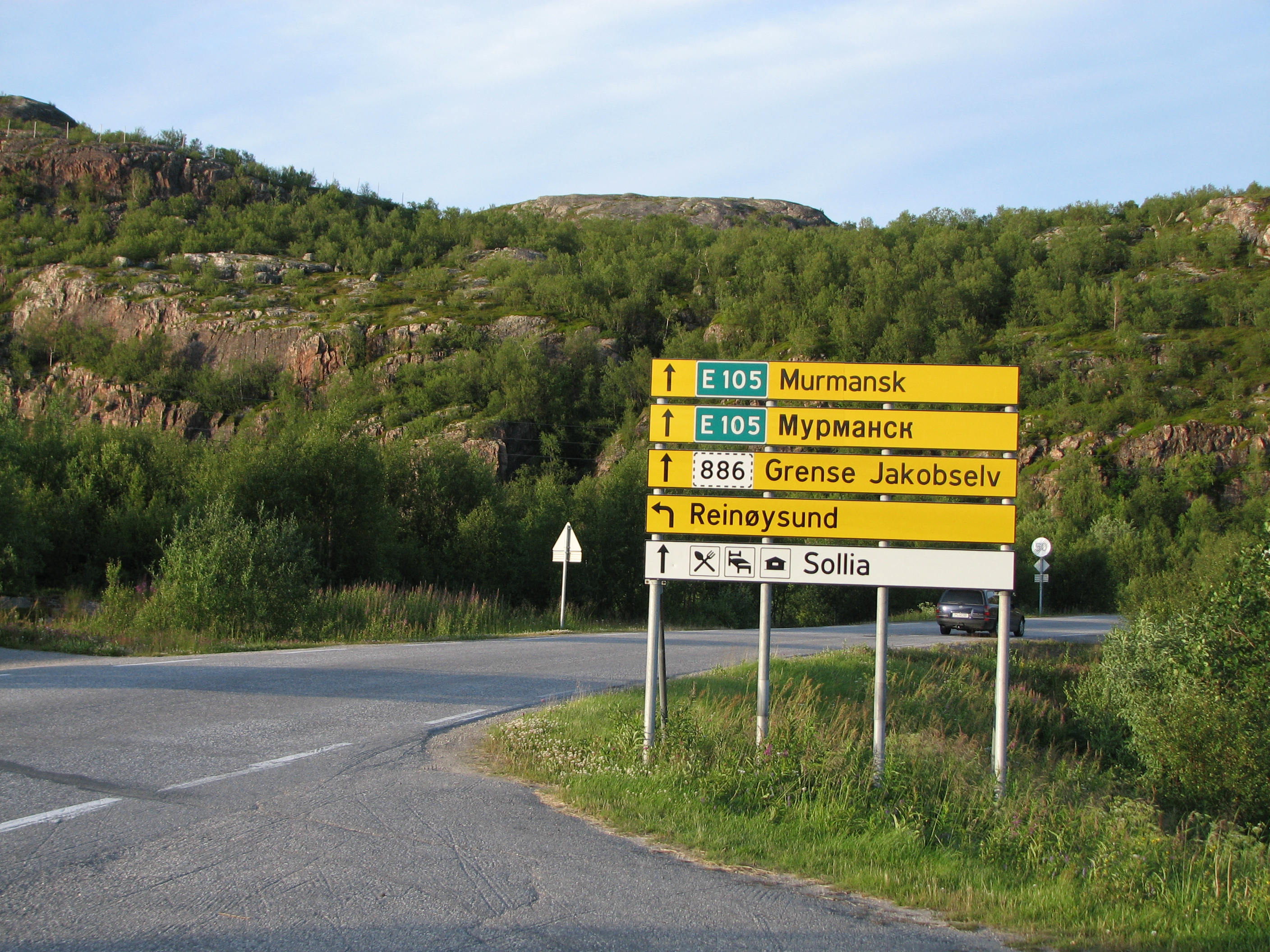 Norway